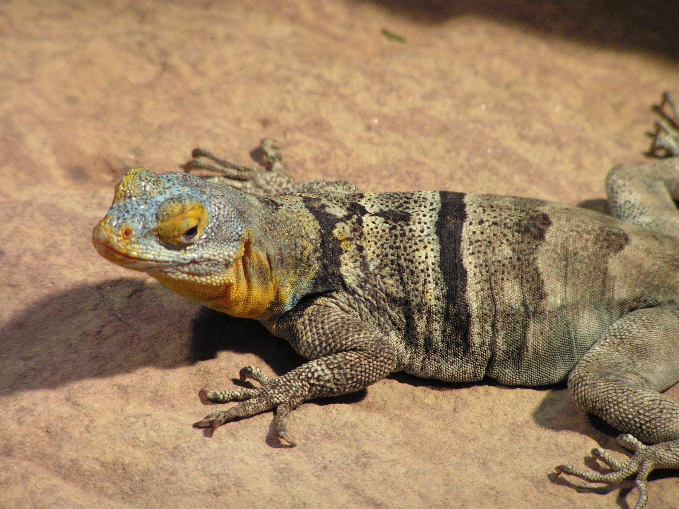 Petrosaurus thalassinus, Baja Blue Rock Lizard, pictured in Stuttgart Wilhelma Zoo